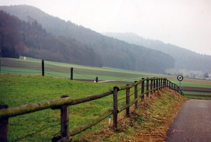 Photo by author personally.